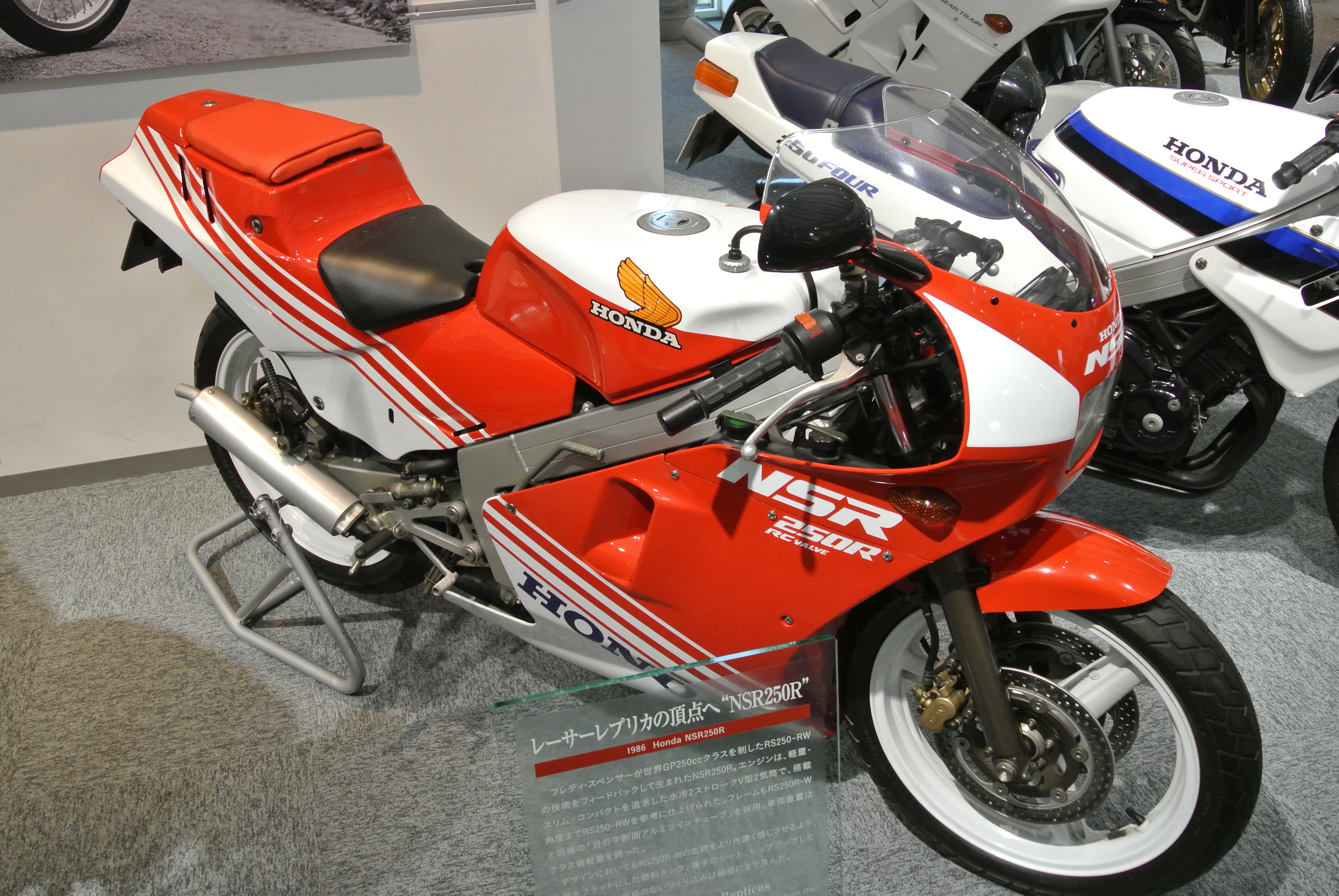 1986 NSR250R 1st Gen in the Honda Collection Hall.